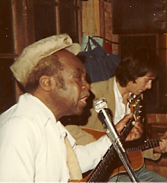 Henry Townsend at Burkhardt's Oyster Bar with Guitar Frank; St. Louis; Jan. 1983